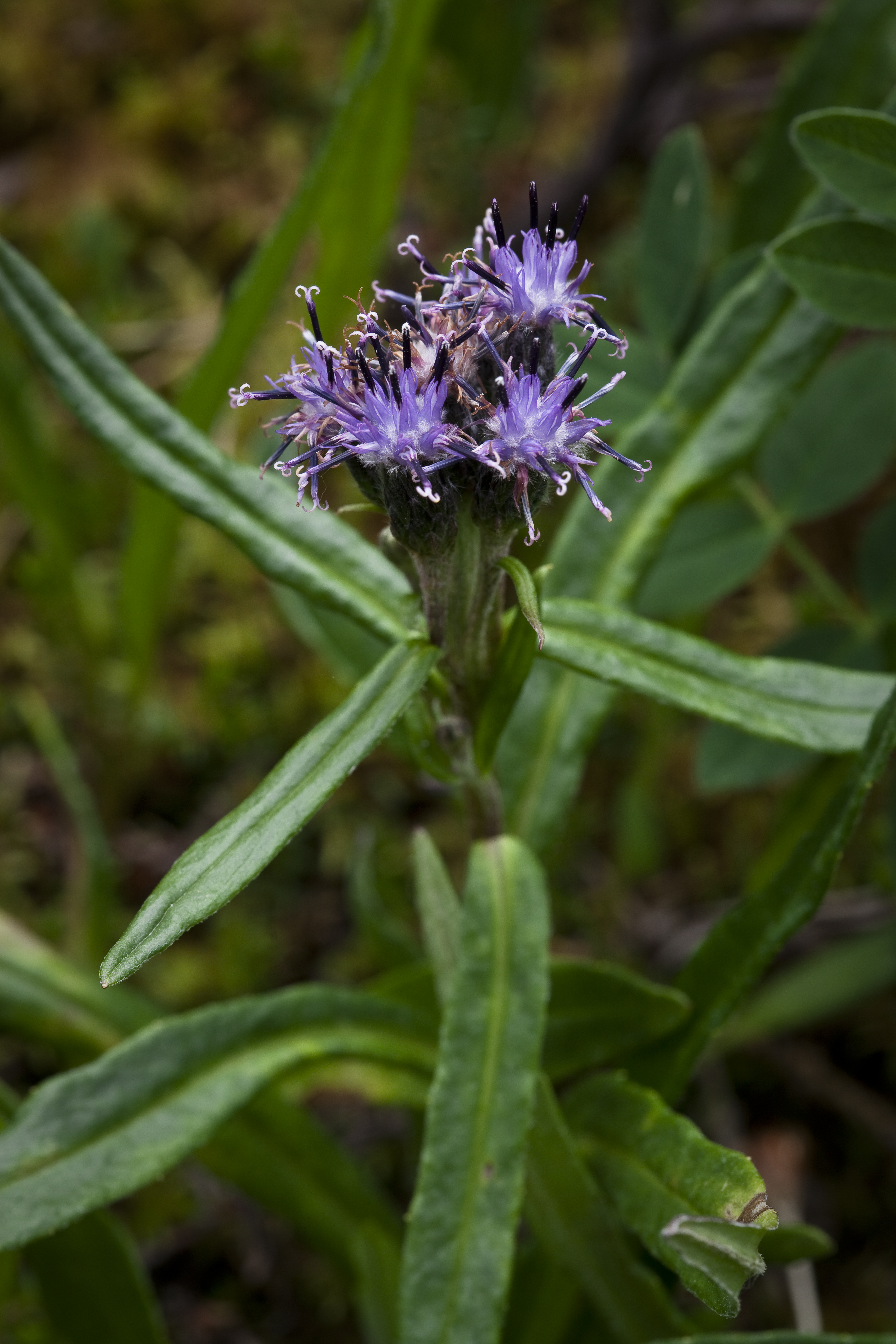 Saussurea angustifolia, Denali National Park and Preserve, AK, USA